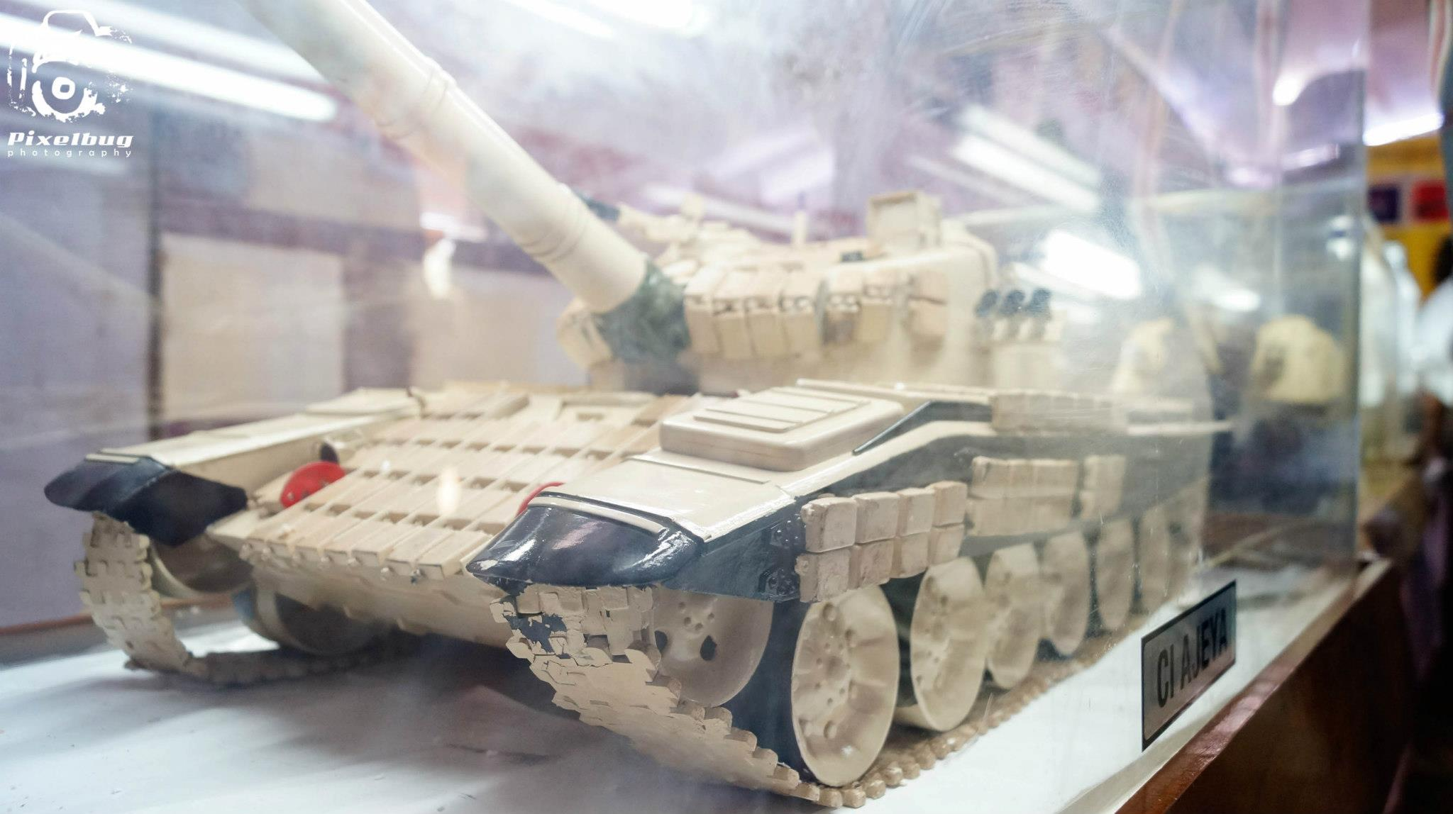 Pragyan 2013 Exhibition by CVRDE